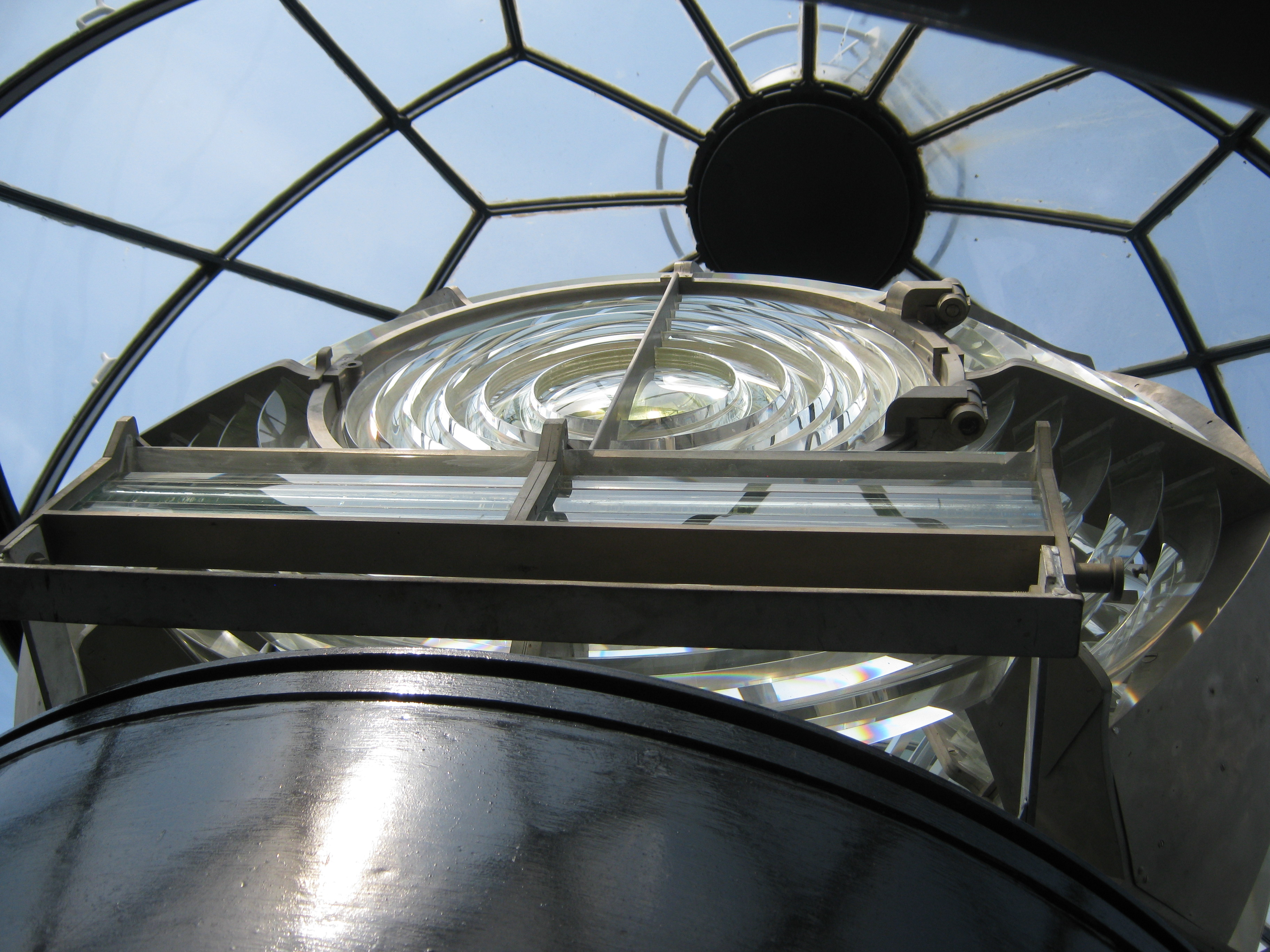 A view from the balcony access chamber